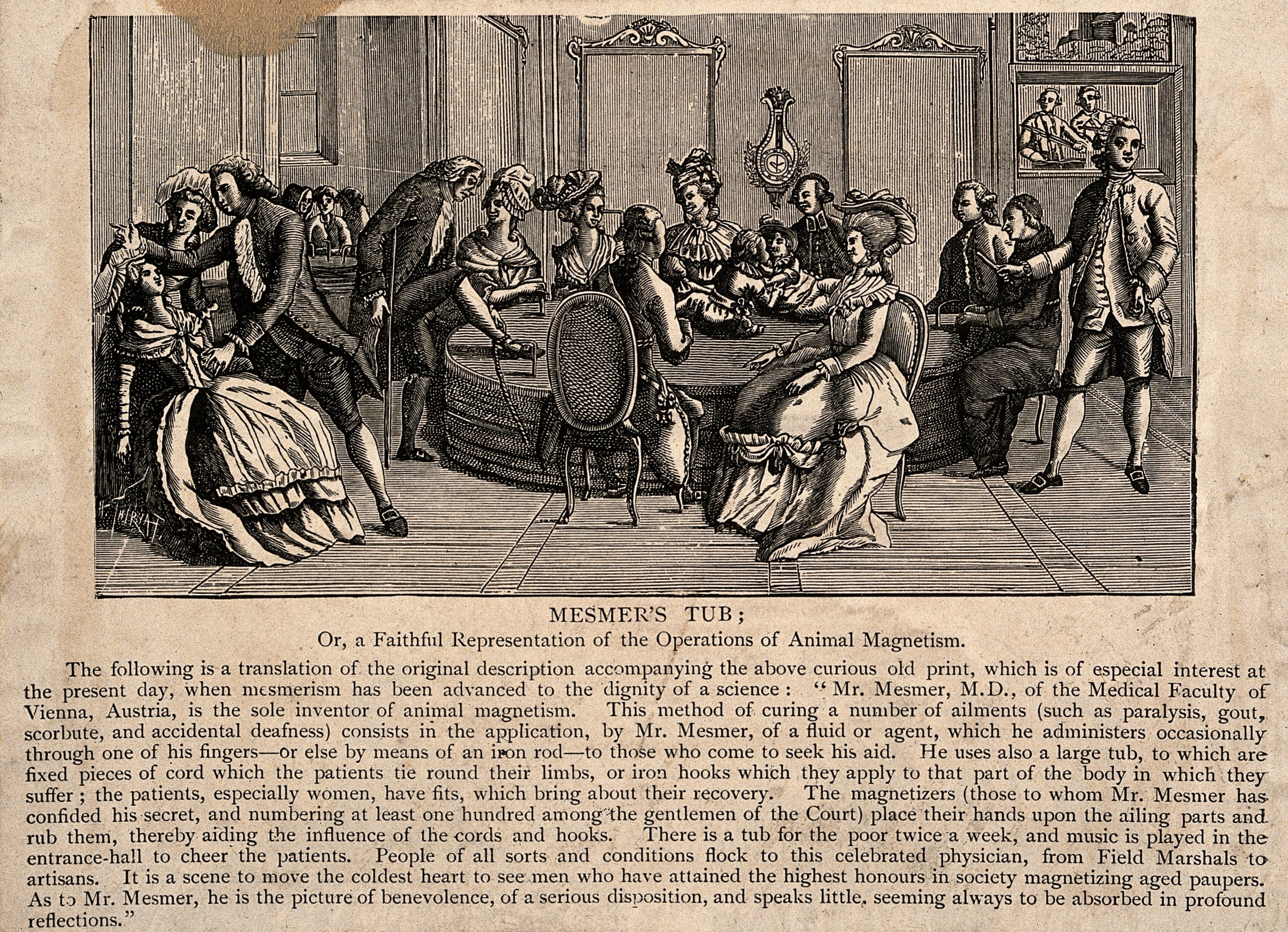 A large gathering of patients and assistants to Mesmer's animal magnetism therapy, showing use of the special tub at his clinic. Iconographic Collections Keywords: MESMERISM; Henri Thiriat; Franz Anton Mesmer; thiriat, h.; hypnotism; ANIMAL MAGNETISM